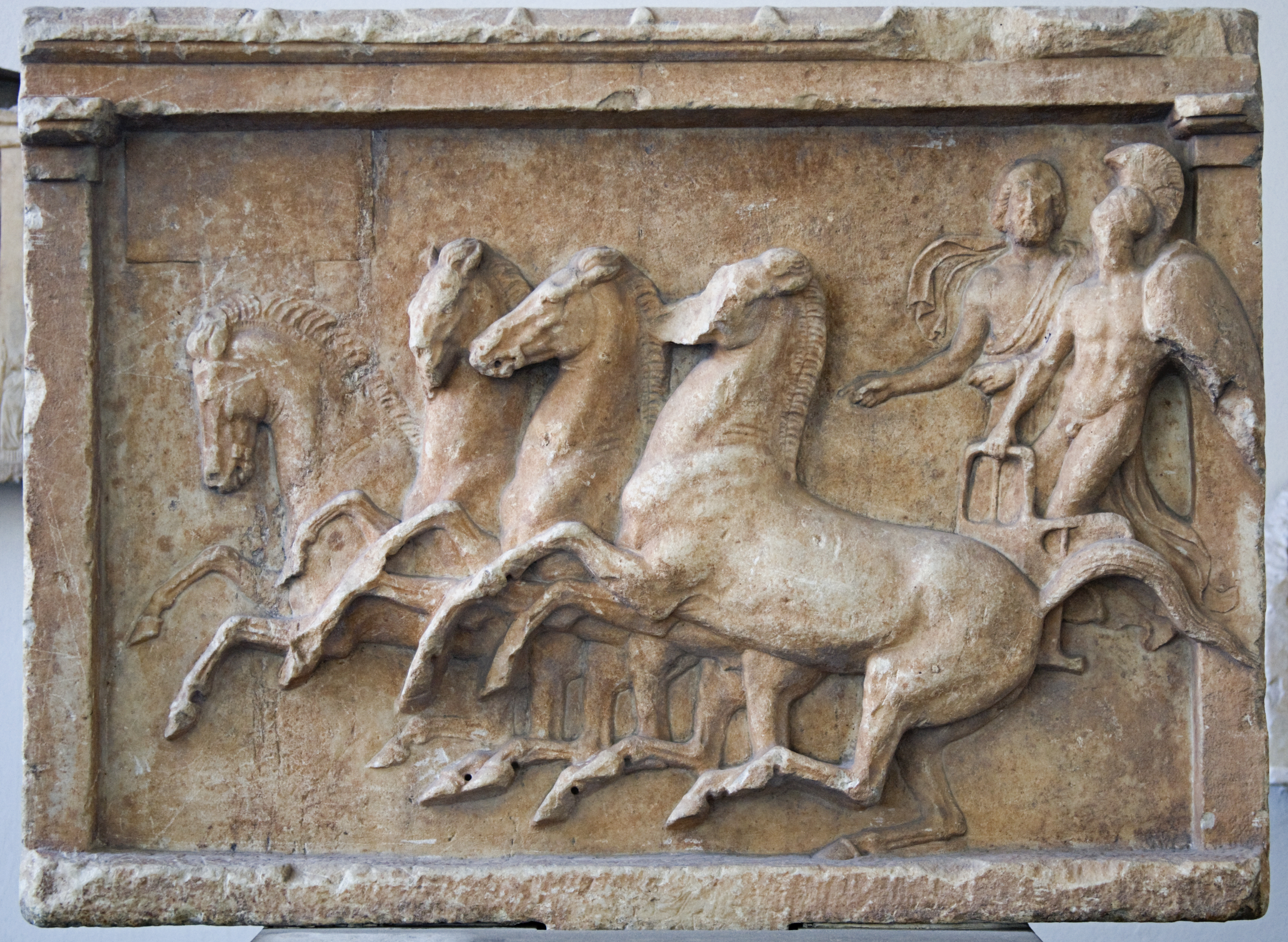 A relief from Oropos, now in the Pergamon Museum, Berlin. Original tag on exhibit states: "Weihrelief fur einen Sieg im Wagenrennen bei den Spielen fur den Heros Amphiaraos. Aus Oropos. Anfang 4.Jh.v.Chr. SK 725. Marmor." which roughly translates to "Votive relief for a victory in the chariot race at the games for the hero Amphiaraos. From Oropos. Early 4th century BC. SK 725th Marble." (from Google translate)